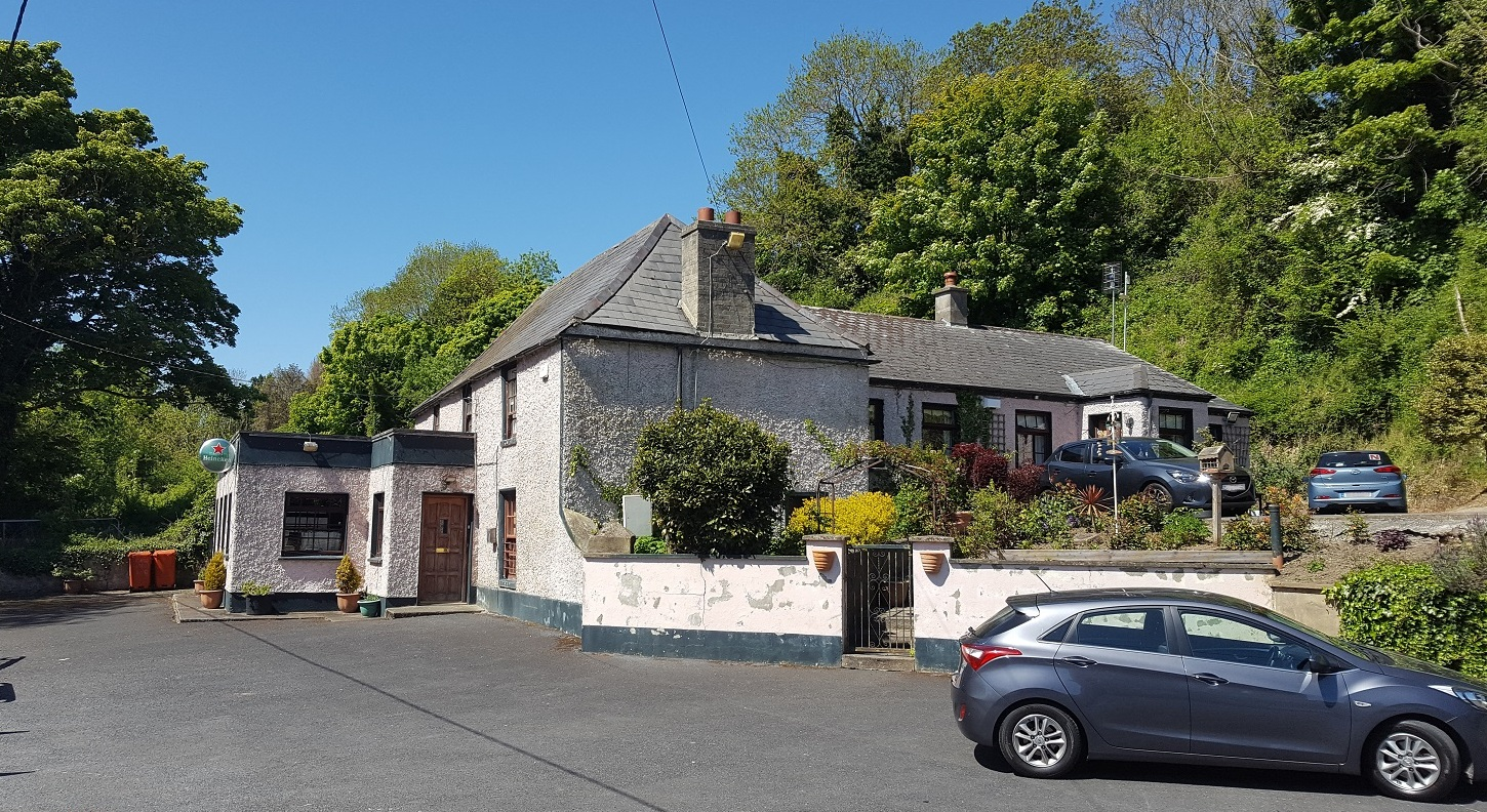 The picturesque Strawberry Beds overlooks the river Liffey. It lies in the townland of Astagob between Chapelizod and Lucan